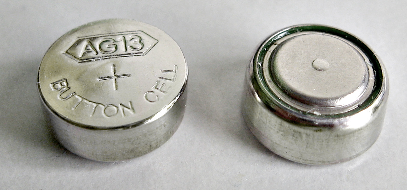 Two identical LR44 button cell alkaline batteries (showing top side and underside). Also known as LR1154, AG13, A76, 157 (alkaline), SG13, S76, 1166A